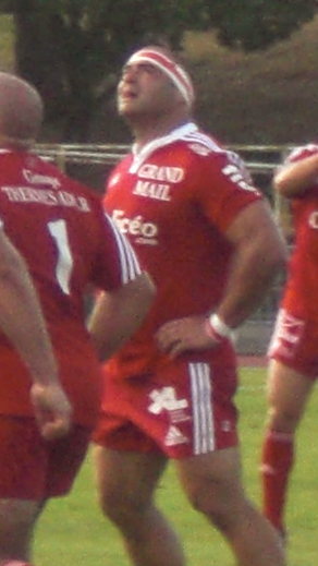 2012–13 Rugby Pro D2 season — 25 August 2012, stade Maurice-Boyau. Match between: US Dax — Stade Aurillacois Cantal Auvergne